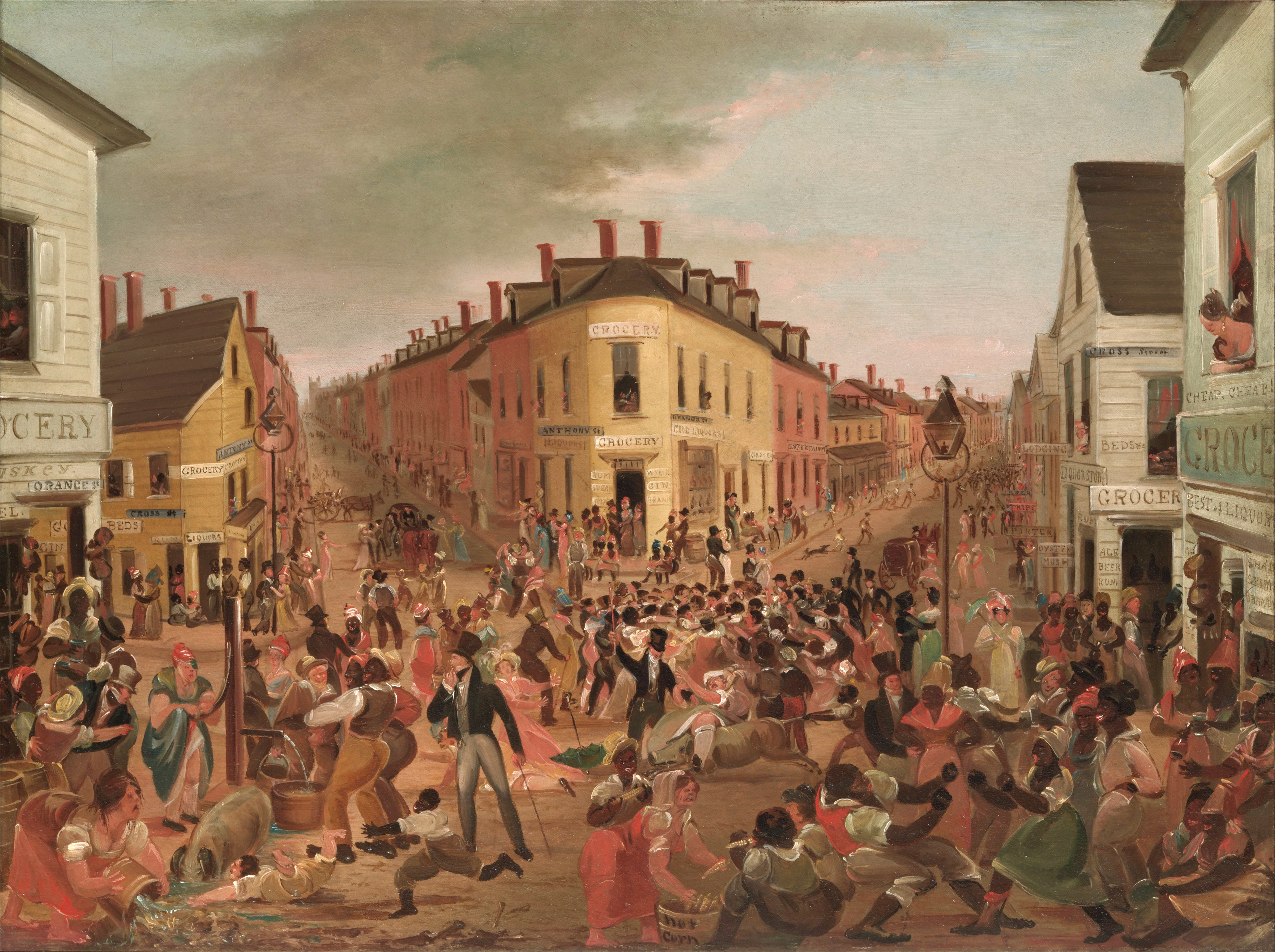 This is a retouched picture, which means that it has been digitally altered from its original version. Modifications: light-adjusted. The original can be viewed here: The Five Points MET DP265419.jpg: . Modifications made by Vzeebjtf.